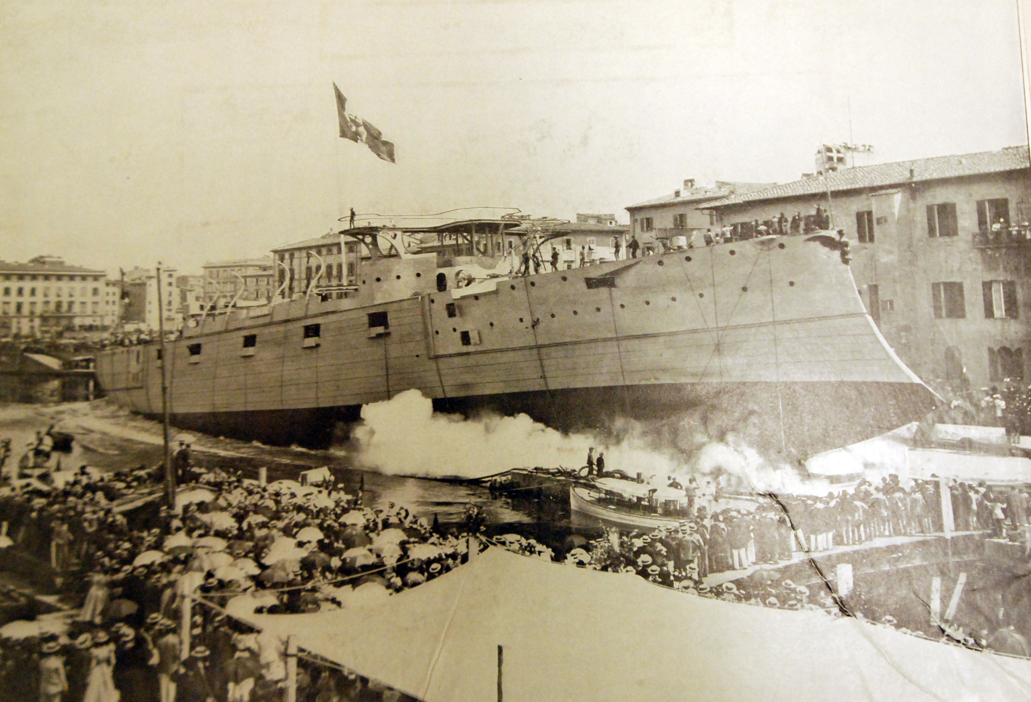 Lot-3215-4: Italian Giuseppe Garibadi-class armored cruiser, Varese, launched August 6, 1899. Collection of Albert S. Mohr, 1899. Courtesy of the Library of Congress. (2017/03/17).